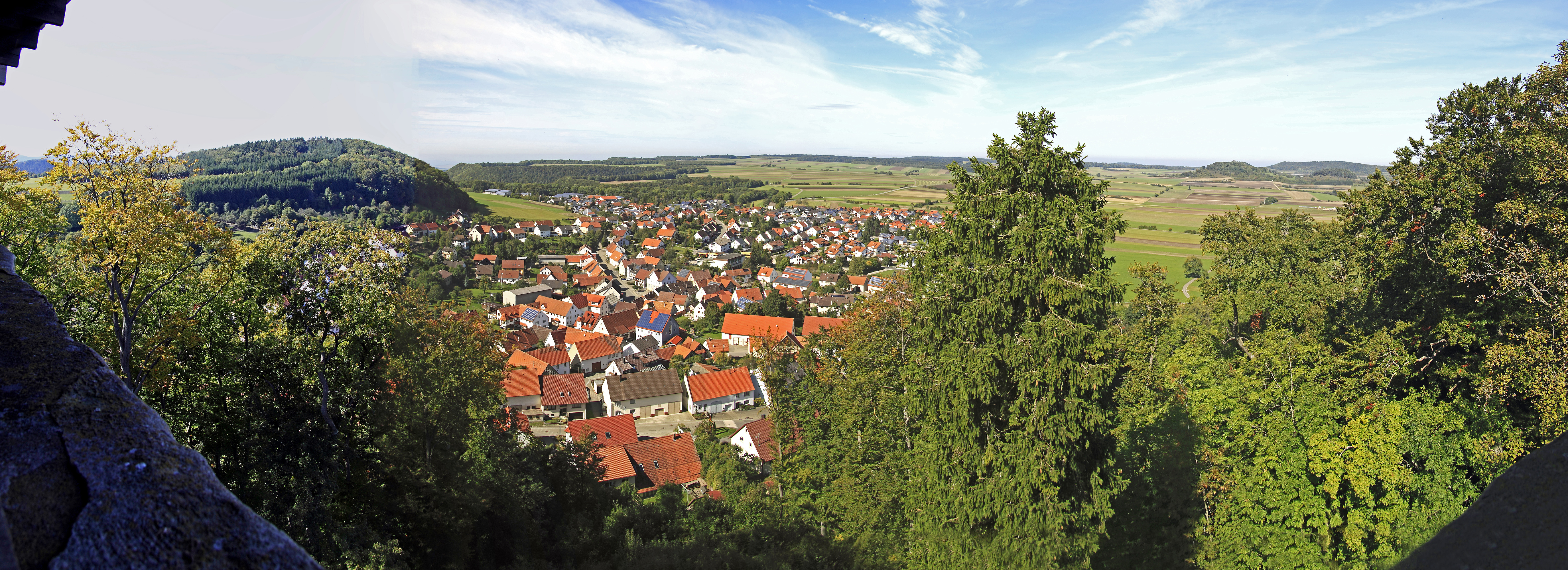 Panorama view of Burladingen-Ringingen, seen from Castle Hohenringingen